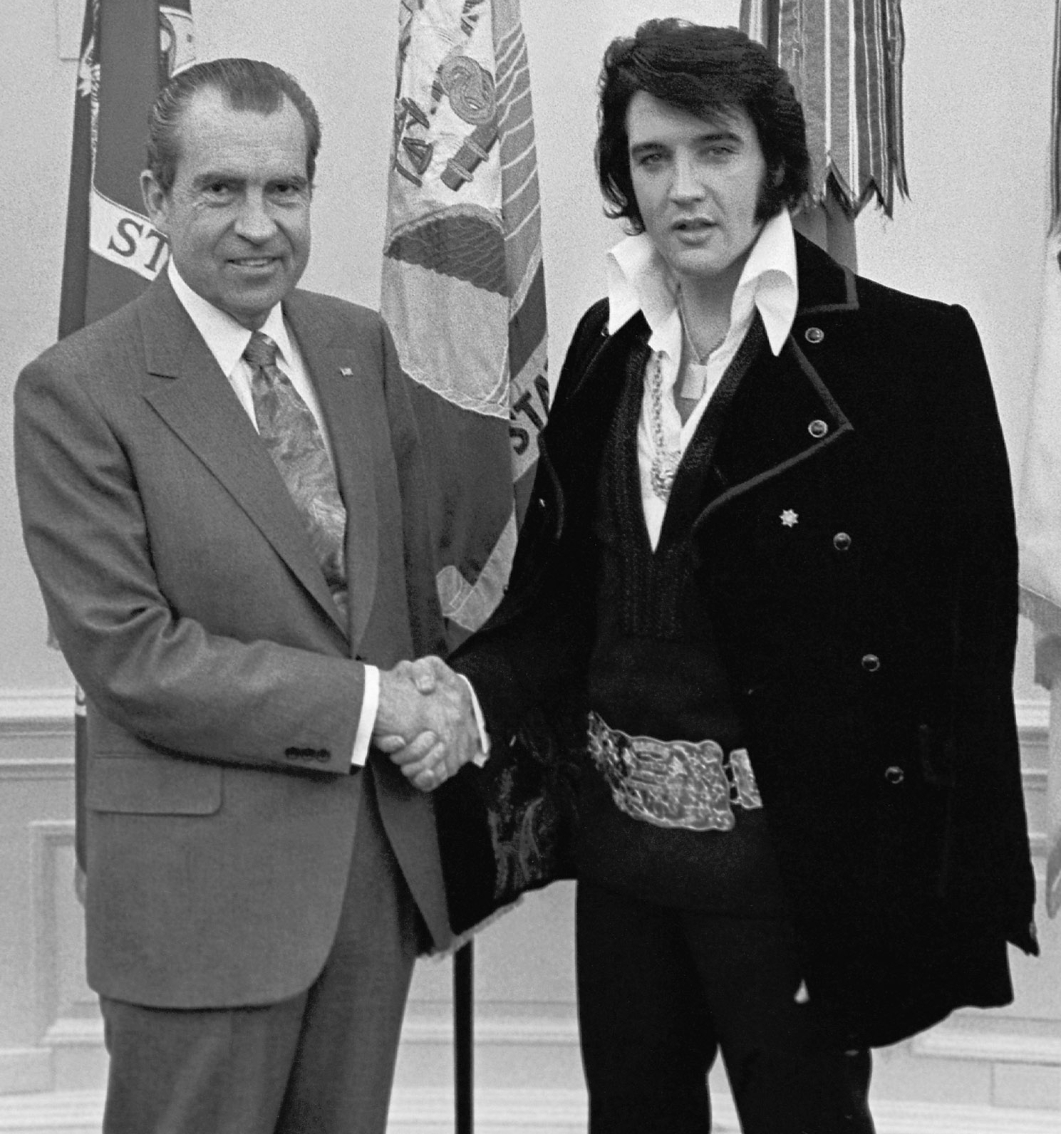 Elvis Presley meeting Richard Nixon. On December 21, 1970, at his own request, Presley met then-President Richard Nixon in the Oval Office of The White House. Elvis is on the right. Waggishly, this picture is said to be 'of the two greatest recording artists of the 20th century'. The Nixon Library & Birthplace sells a number of souvenir items with this photo and the caption, "The President & the King."